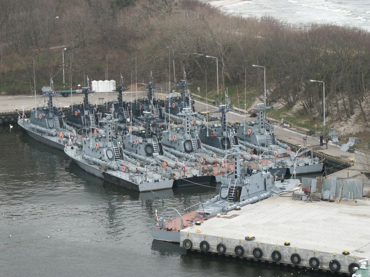 Polish ASW craft Project 918M ('Pilica') class in Kołobrzeg.